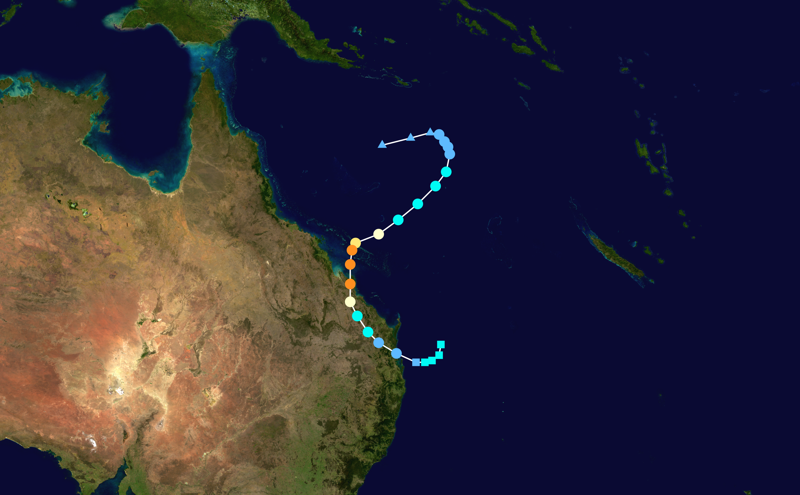 Track map of Severe Tropical Cyclone Marcia of the 2014-15 Australian region cyclone season. The points show the location of the storm at 6-hour intervals. The colour represents the storm's maximum sustained wind speeds as classified in the Saffir–Simpson scale (see below), and the shape of the data points represent the nature of the storm, according to the legend below. Saffir–Simpson scale Tropical depression≤38 mph≤62 km/h Category 3111–129 mph178–208 km/h Tropical storm39–73 mph63–118 km/h Category 4130–156 mph209–251 km/h Category 174–95 mph119–153 km/h Category 5≥157 mph≥252 km/h Category 296–110 mph154–177 km/h Unknown Storm type Tropical cyclone Subtropical cyclone Extratropical cyclone / Remnant low / Tropical disturbance / Monsoon depression